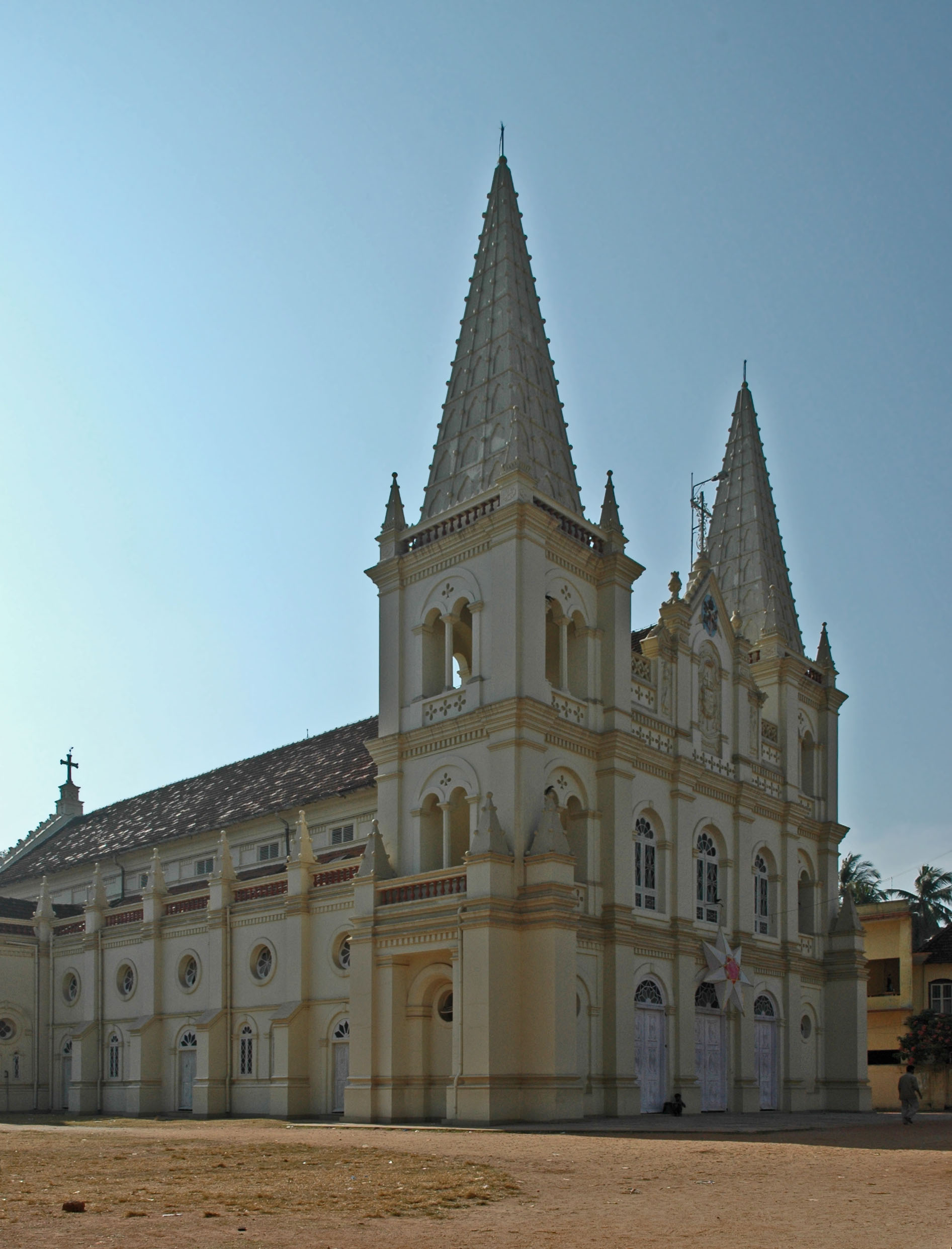 Santa Cruz Roman Catholic Church (Basilica). Other photo's: - OpenStreetMap(Info)